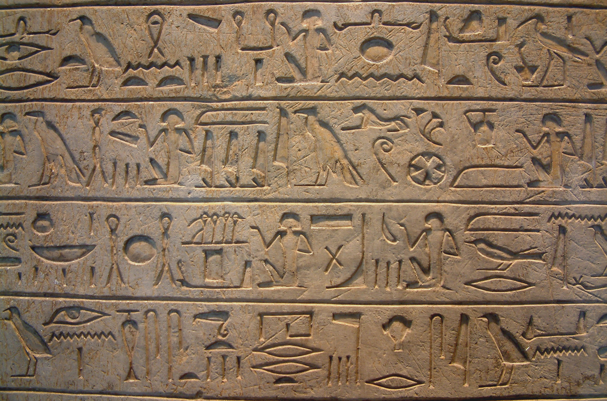 Egyptian hieroglyphic detail. Four lines of hieroglyphs: Line 1: Shen loop, Spit of land, 3 strokes, Man, Arms in negation, Incense bowl, Ibis bird, Line 2: Field of reeds, Plinth shape, Plants, Jug with handle, Line 3: H-Ra-H 'block' , Fence, Meat, crossed strokes, Line 4: Eye, Water jug, Face, Arm with conical bread